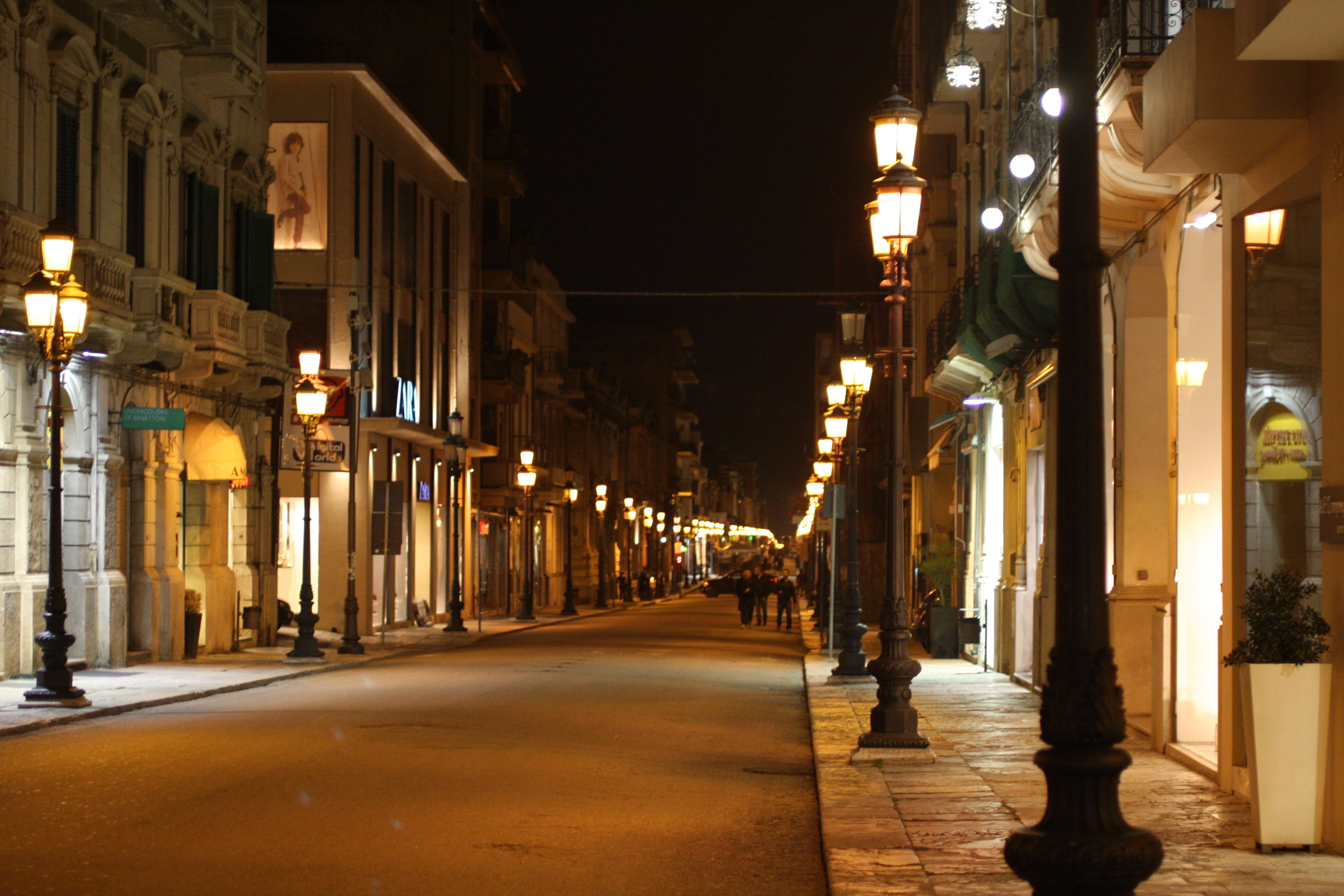 Shopping street of Reggio Calabria